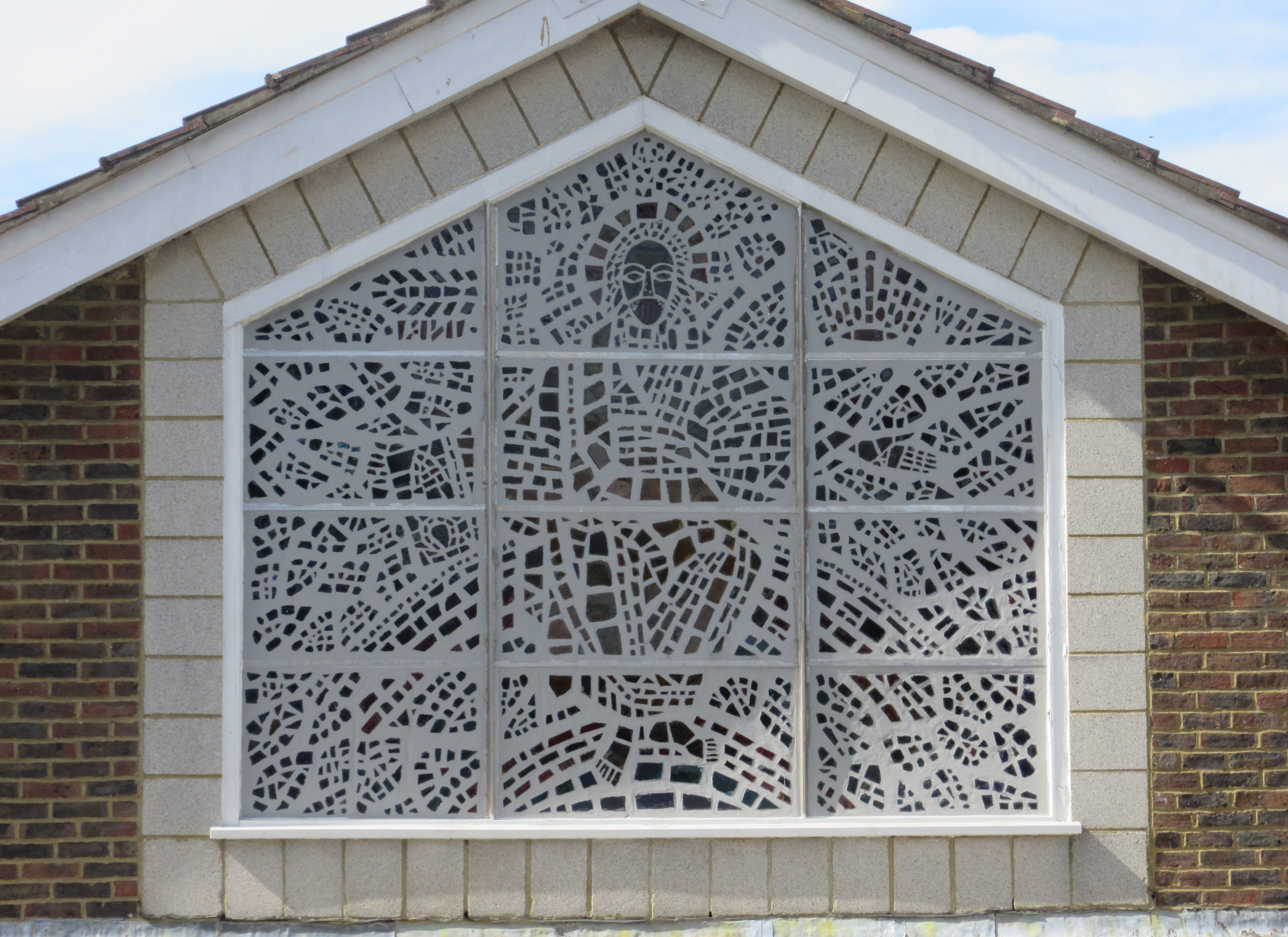 Dalle de verre glass at the Church of Christ the King, High Street, Burwash, Rother District, East Sussex, England. The Roman Catholic parish church of Burwash, part of a joint parish with St Catherine's at Heathfield.